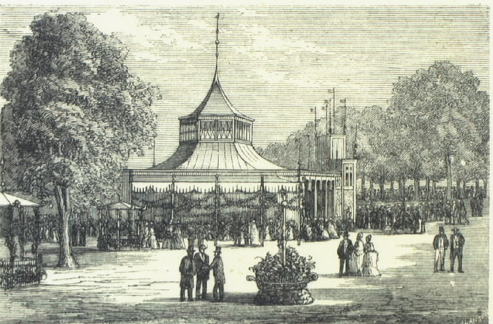 Old drawing of the former concert hall in Tivoli Gardens, Copenhagen